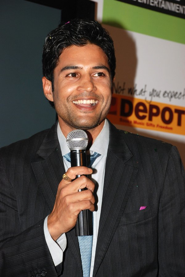 Rajeev Khandelwal at the DVD launch of Aamir, July 2008.